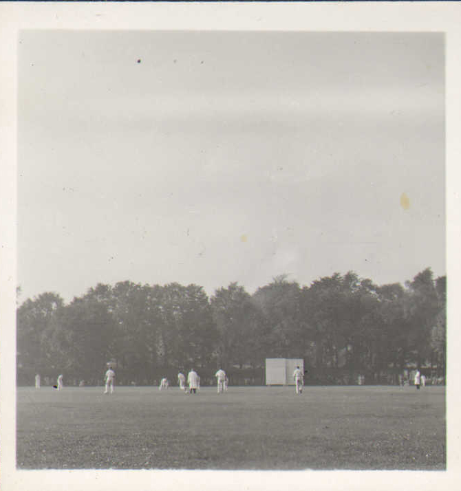 Park Drive cricket ground in Hartlepool, England. The picture shows a cricket match being played in July 1955.